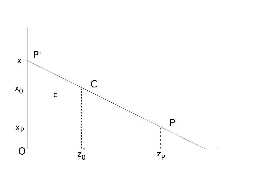 Geometry of central projection